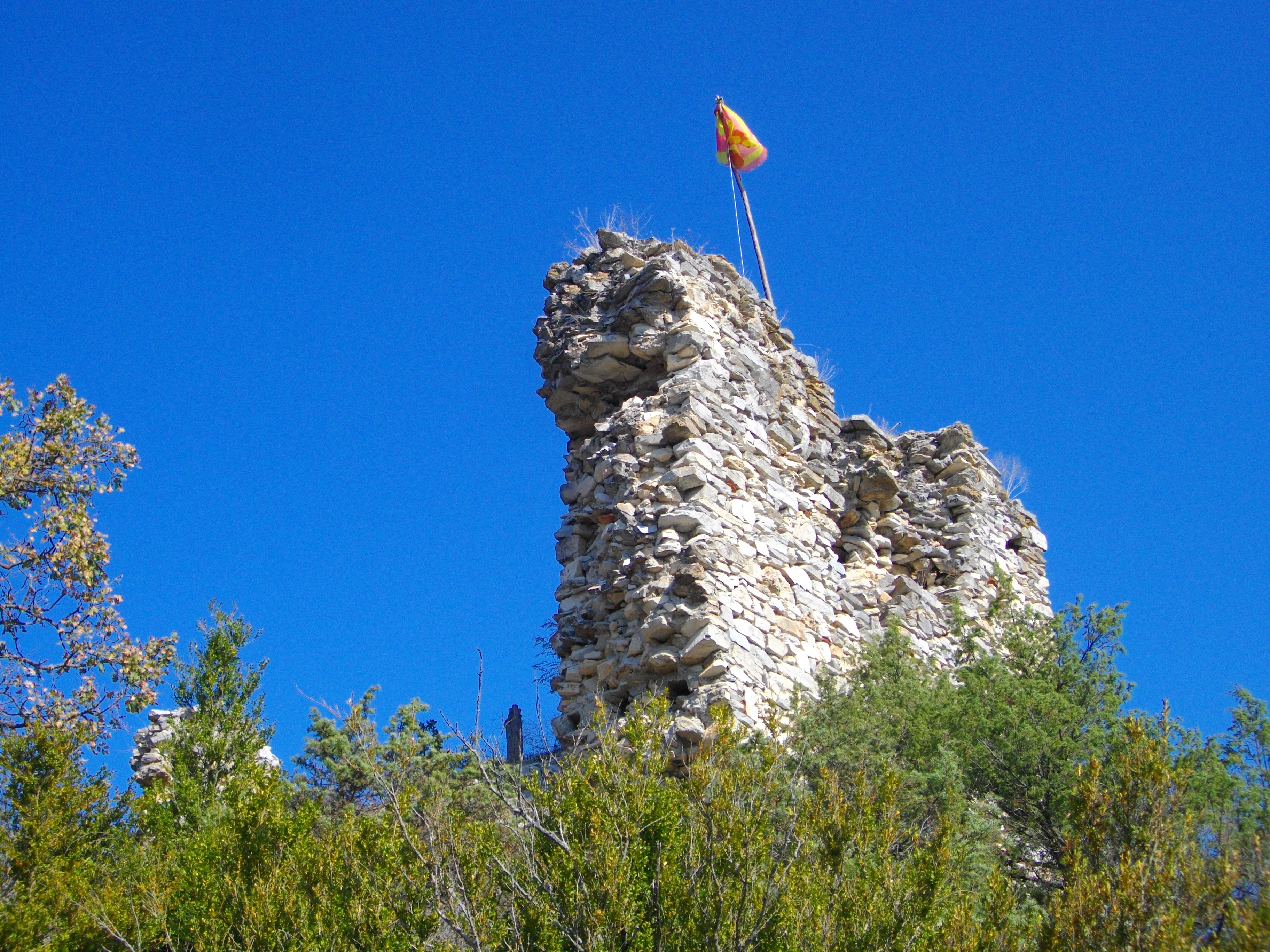 Devic